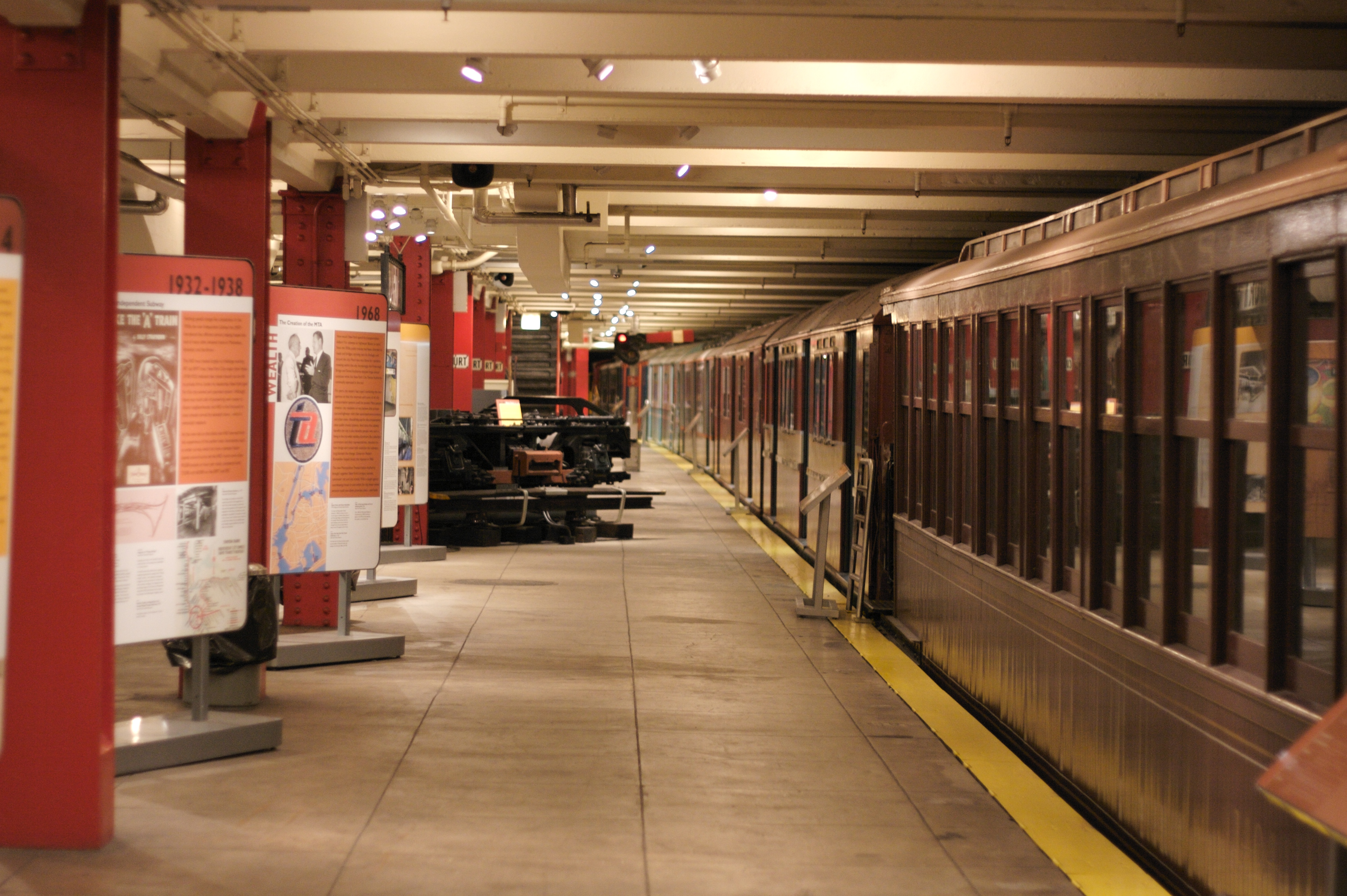 Historic New York subway cars on display at the New York Transit Museum. The exhibit in the unused Court Street station in Brooklyn was opened on July 4, 1976 as part of the United States Bicentennial celebration.